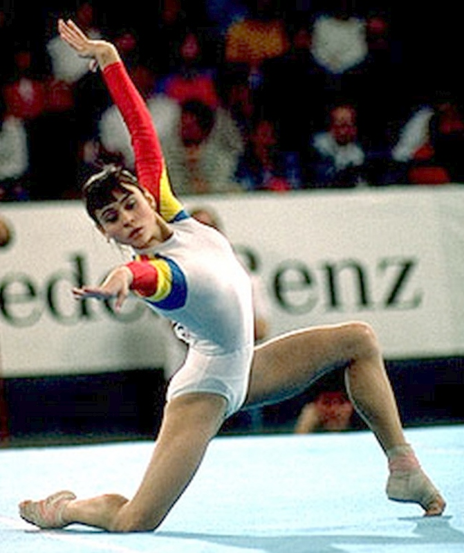 Aurelia Dobre, 1988 Olympics